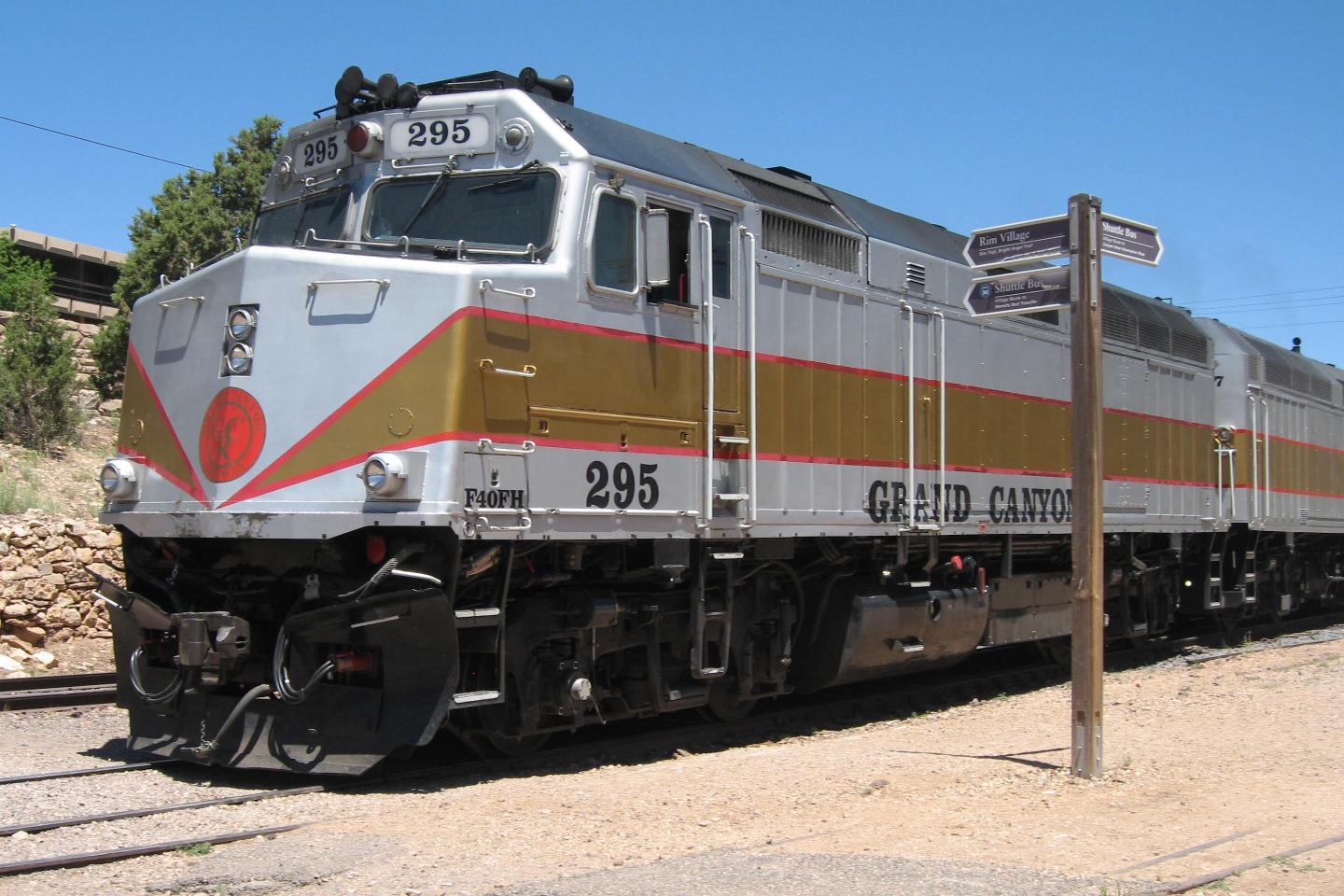 EMD F40PH diesel-electric locomotive of the Grand Canyon Railway in Grand Canyon Village.